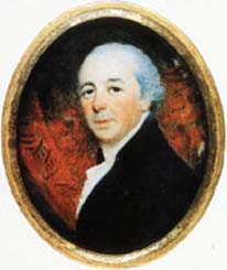 Painting of British architect John Nash (1752-1835).